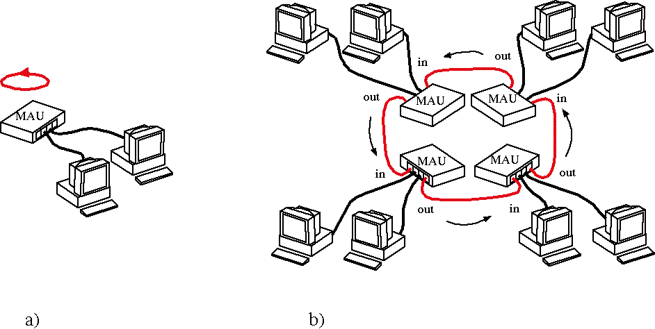 Examples of Token Ring Networks